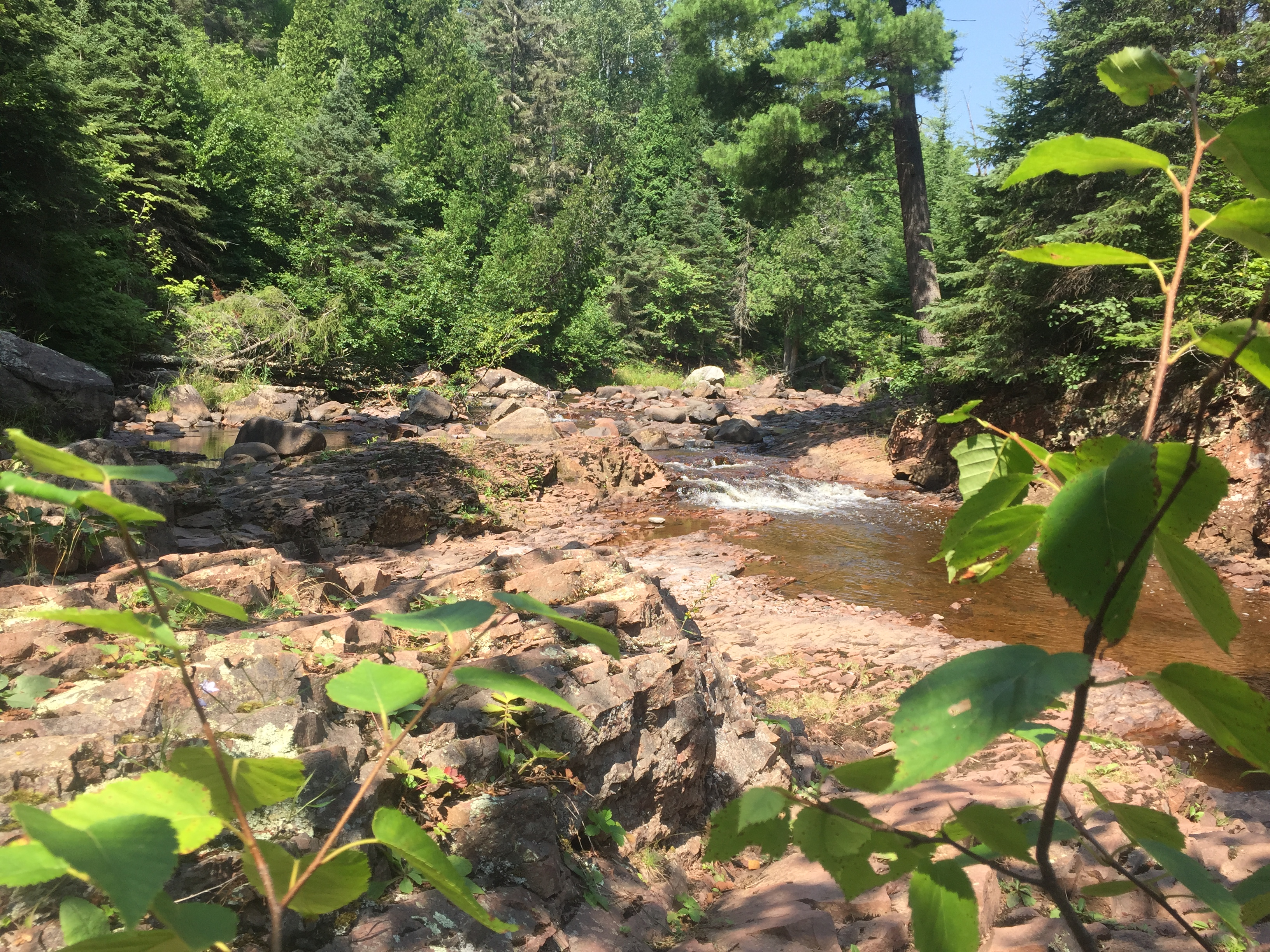 Portion of West Split Rock River Near the Superior Hiking Trail, approximately 1/2 mile downstream of the Split Rock Campsites.